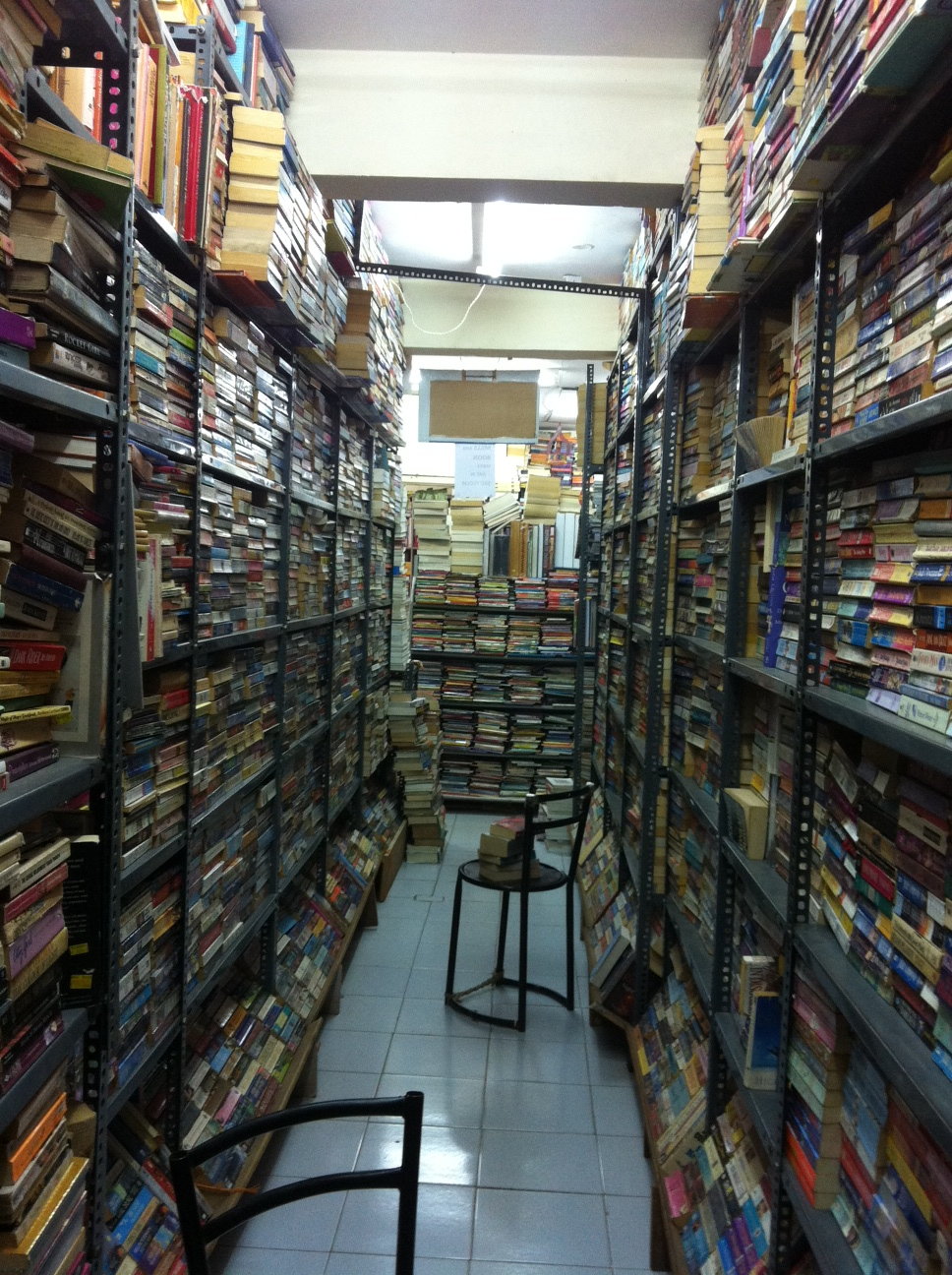 Fiction novels at Blossom Book House